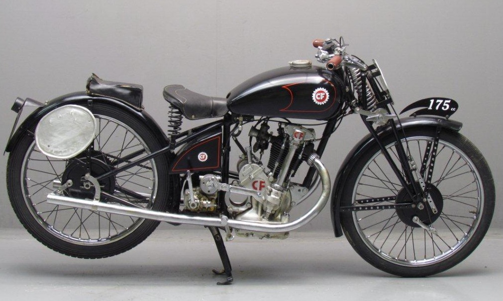 CF Leggera 175 cc motorcycle from 1933